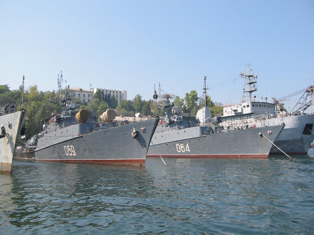 Russian small ASW ships Aleksandrovets (059) and Muromets (064) in Sevastopol.